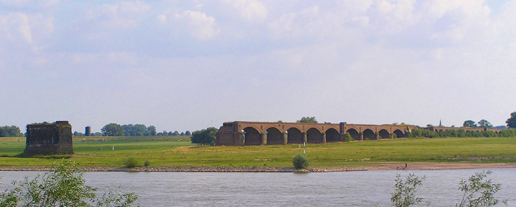 Ruins of former bridge of the Hollandbahn over the river rhine near Wesel, Germany; "Rheinaue zwischen Büderich und Perrich" nature reserve